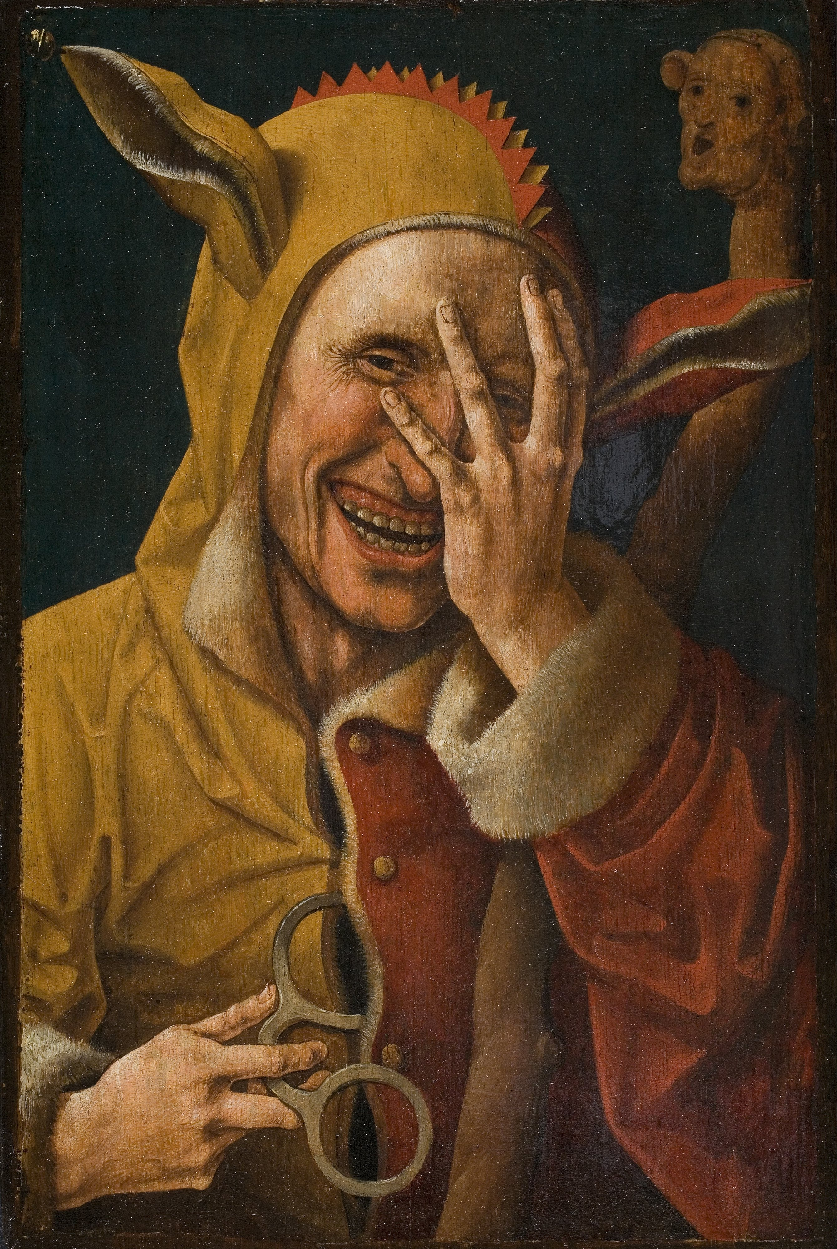 Netherlandish (possibly Jacob Cornelisz. van Oostsanen) Laughing Fool ca. 1500 - Oil on panel, 13 13/16 x 9 in Davis Museum at Wellesley College